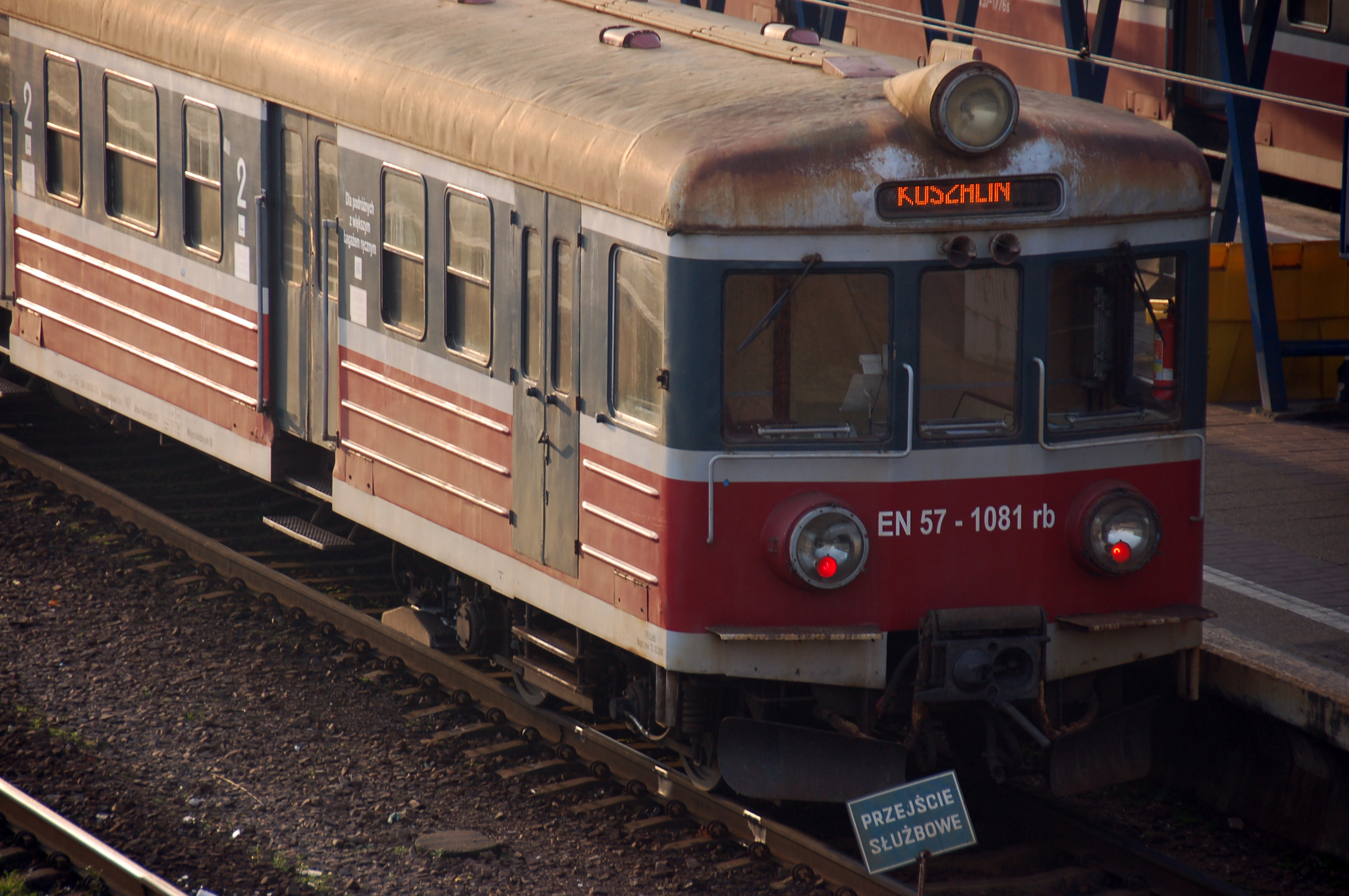 Stettin central train station